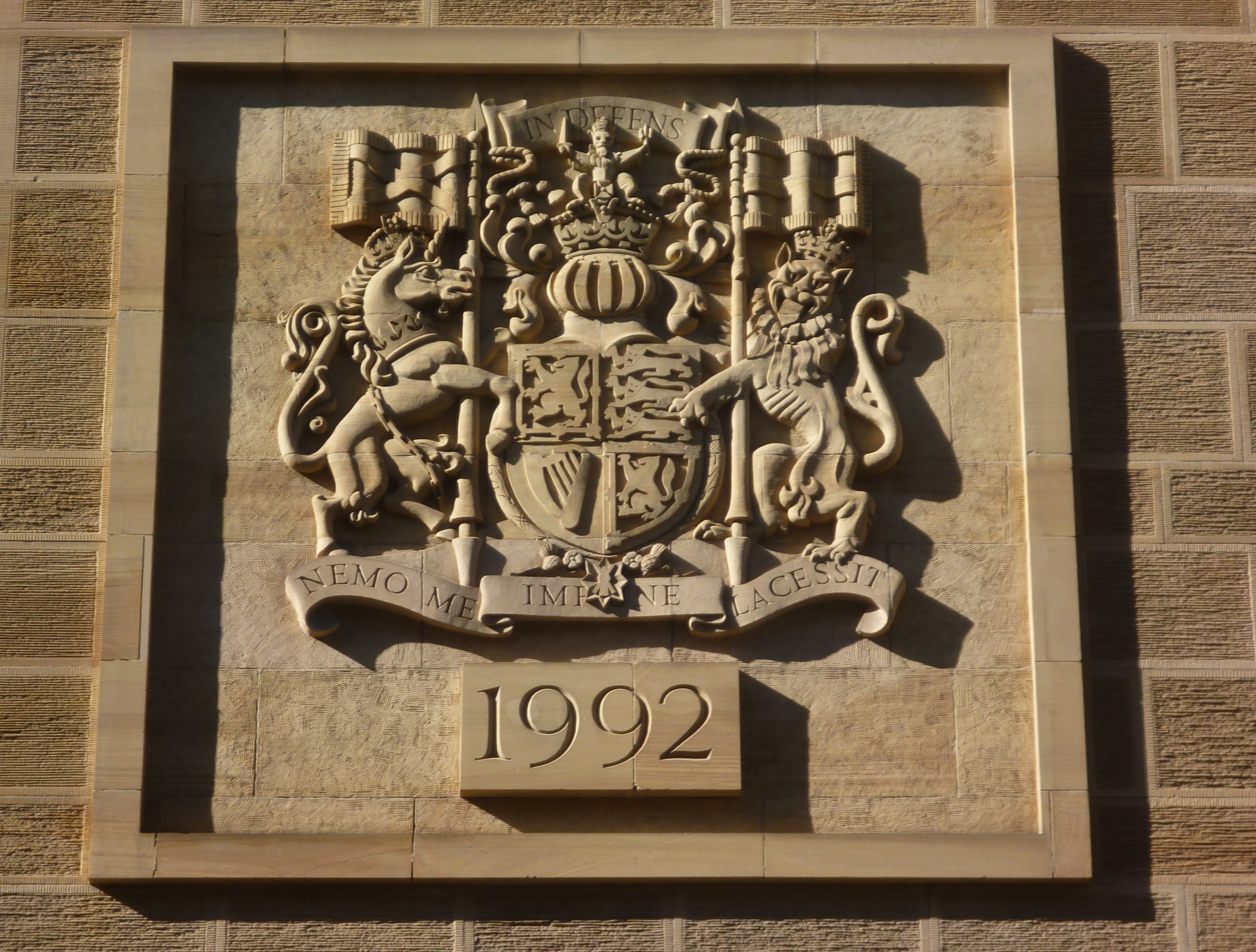 Royal Arms tablet on the Edinburgh Sheriff Court building